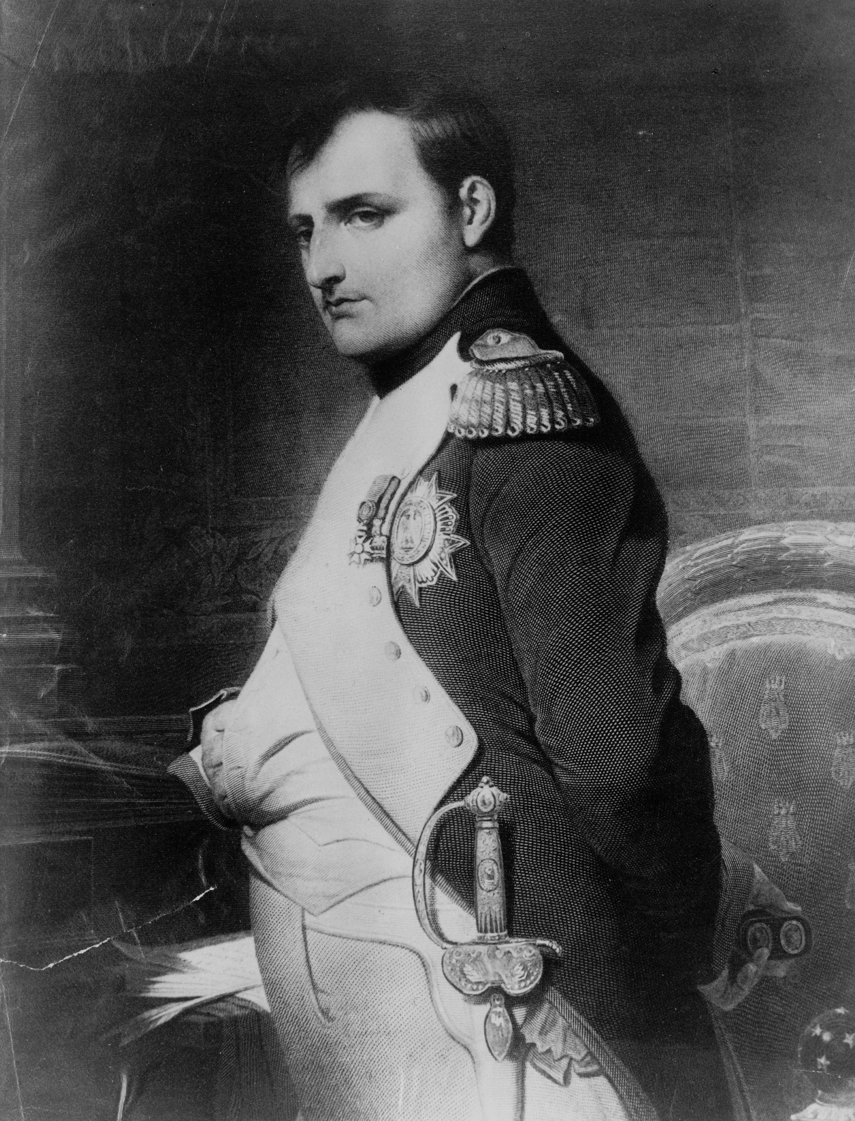 Napoléon Bonaparte (1769-1821), half-length portrait, facing left.